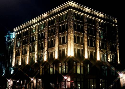 Lyman 1908